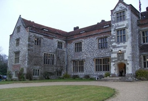 Exterior view of Chawton House, formerly part of the estate of Jane Austen's brother.